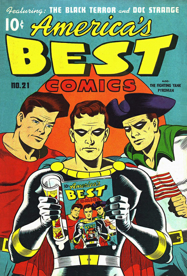 Cover of America's Best Comics #21 March 1947